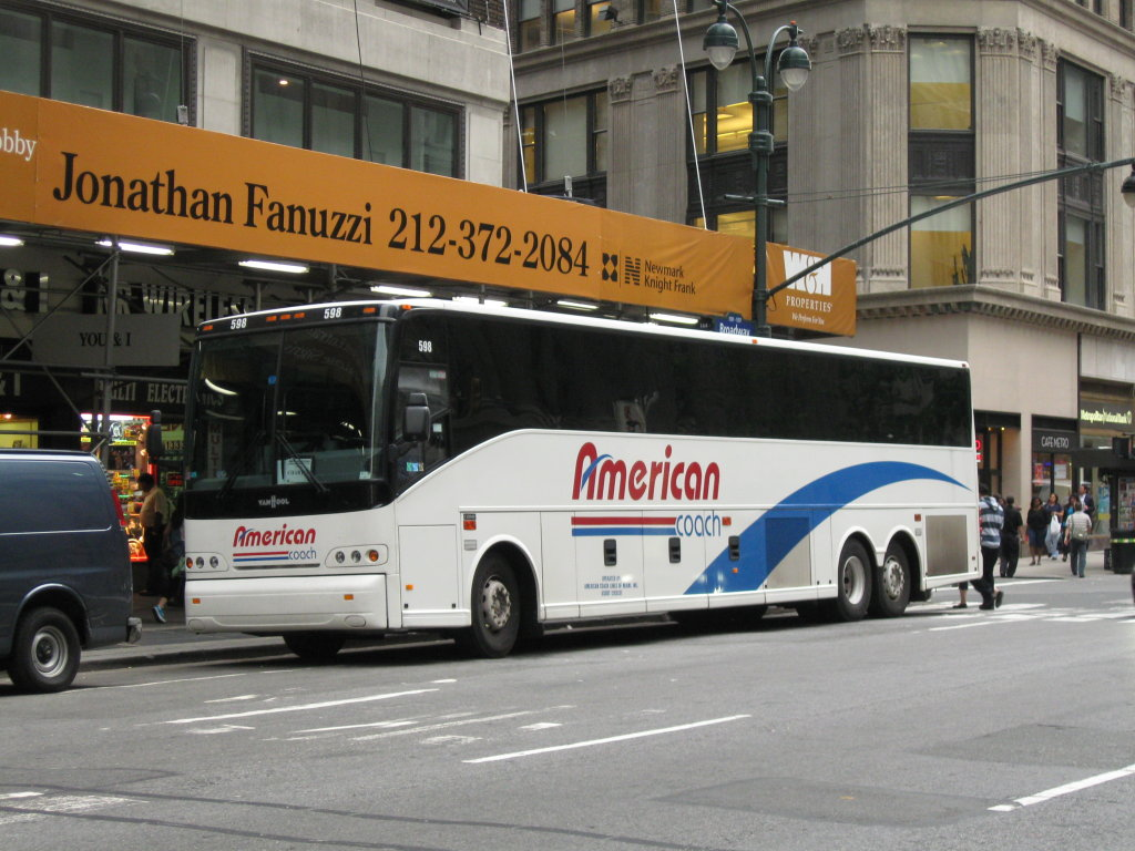 Van Hool C2045 coacch American Coach Lines bus (#598) in New York City.